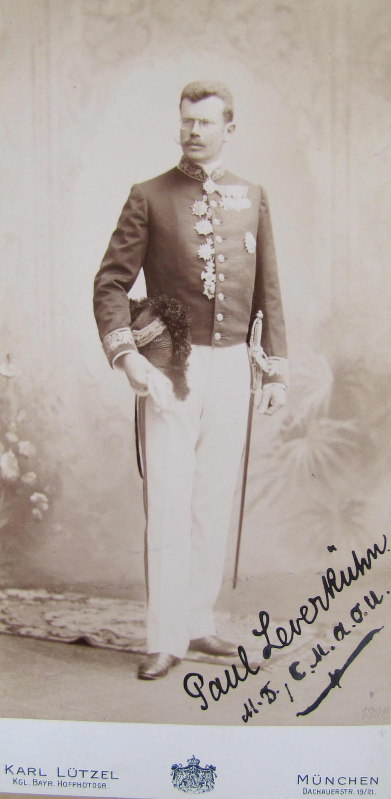 Cabinet Card of Dr. Paul Leverkühn (Paul Leverkühn), Dated 1898. (The back of the card states that he was a current member of the American Ornithologists Union. The handwritten abbreviations under his signature are M.D. (he was a doctor) and C.M.A.O.U. (Current Member of theAmerican Ornithologists Union). From the Ruthven Deane Collection of Portraits, Prints and Photographs Division, Library of Congress.17). This photo was located in the Ruthven Deane collection at the Library of Congress. Deane, an American ornithologist, was inspired to collect photographs of "bird men" because of Leverkühn's enormous collection of photos of ornithologists, which was sold after his death in 1905. See the following article for more details: T. S. Palmer, "The Deane Collection of Portraits of Ornithologists--the Development of an Idea," Science, n. s., 100, no. 2596 (1944): 288-290.